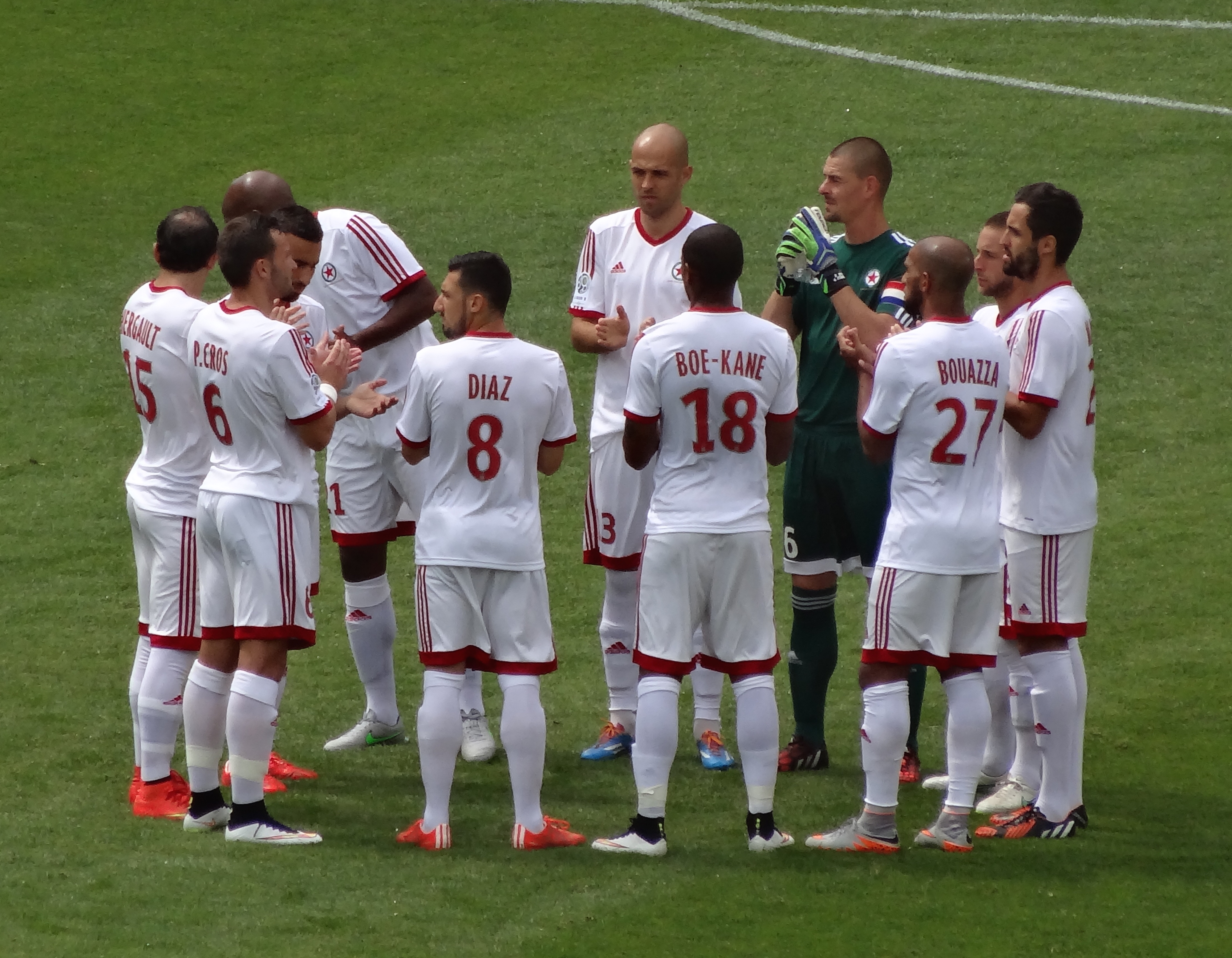 Red Star 2015-2016 (Lens away)